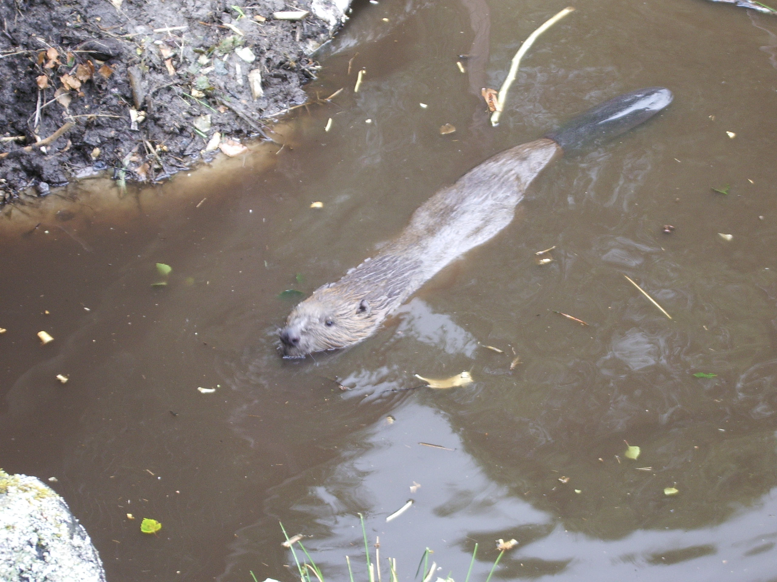 European beaver swimming at Highland Wildlife Park.